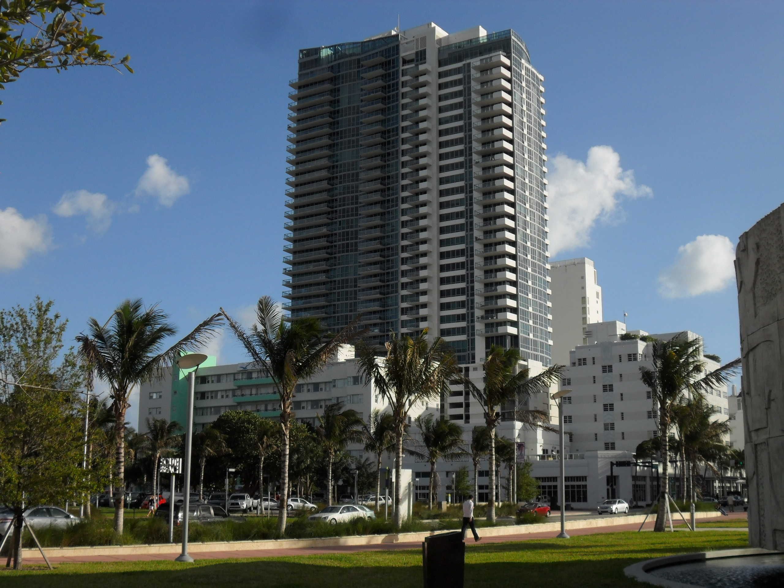 The Setai Miami Beach high rise hotel condominium located in South Beach, Miami Beach, Flordia.